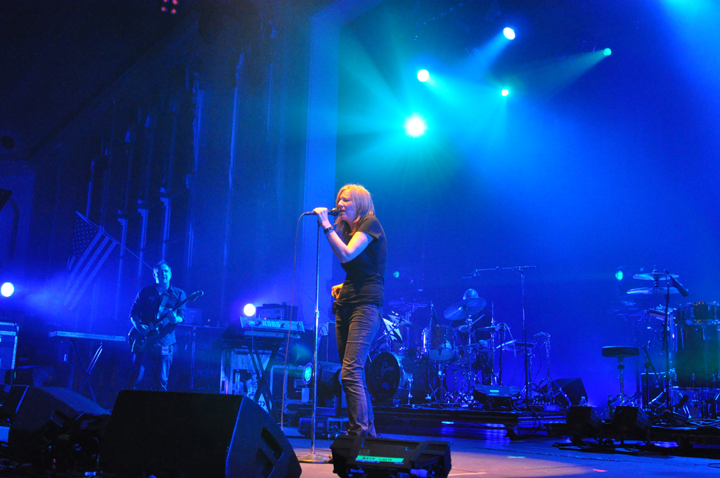 Portishead performing for All Tomorrow's Parties Presents I'll Be Your Mirror on October 1, 2011 in Asbury Park, New Jersey.